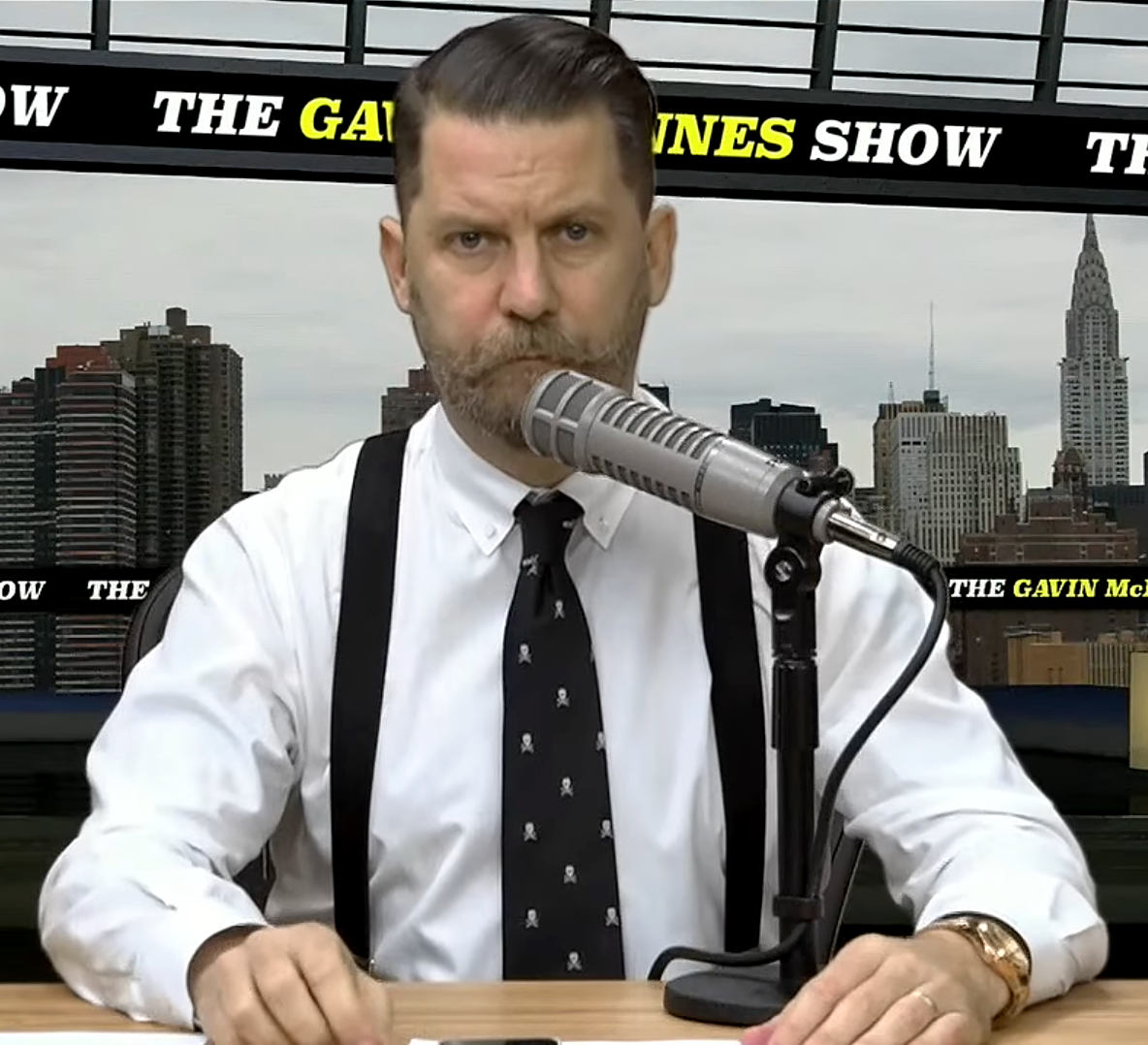 Gavin McInnes on Louder with Crowder.